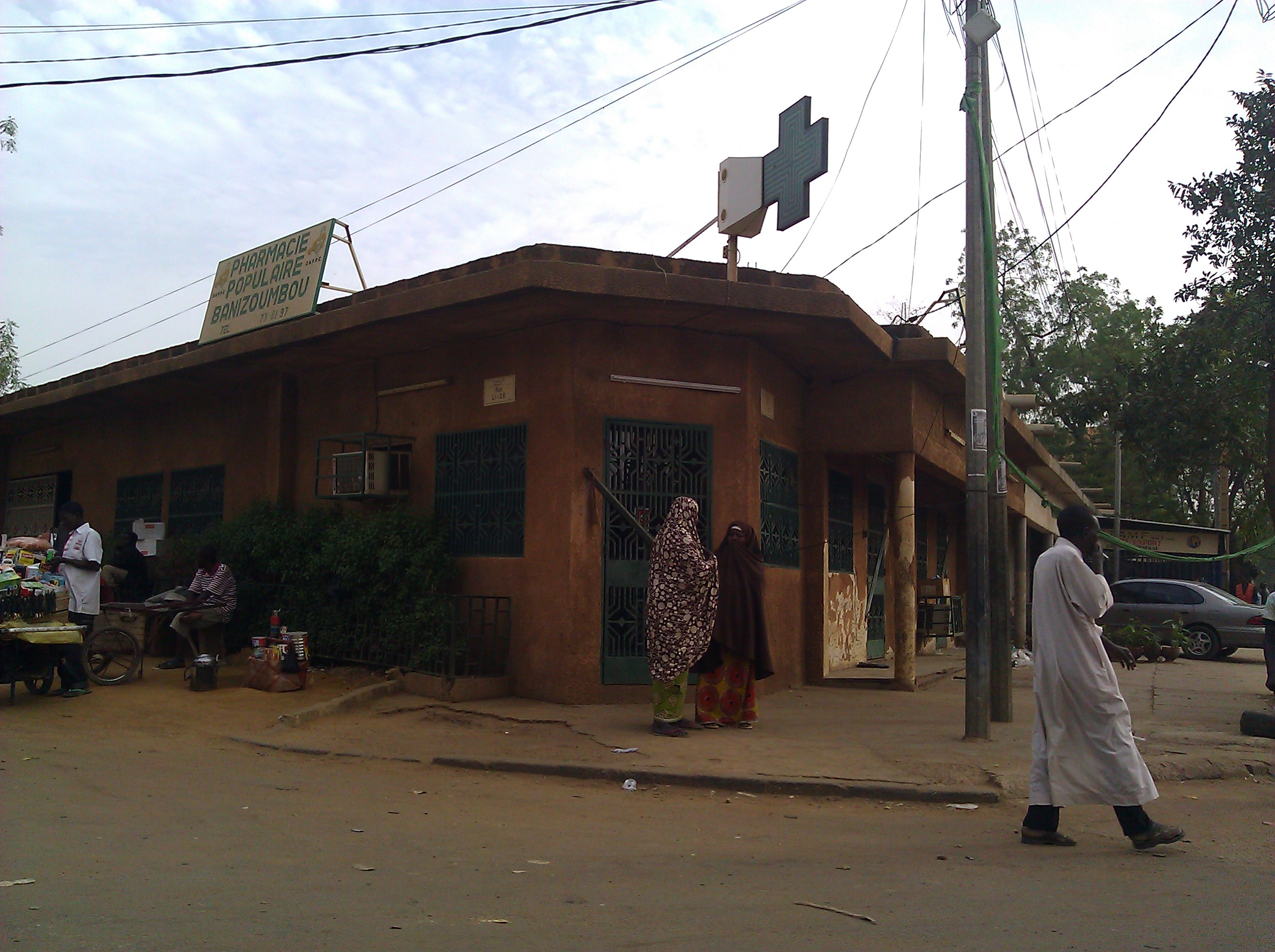 The streets of Niamey